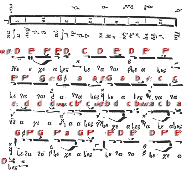 Parallage (solmization) of the hard chromatic scale according Chrysanthos, the echos plagios devteros (ἦχος πλάγιος τοῦ δευτέρου) in the current traditions of Orthodox Chant.